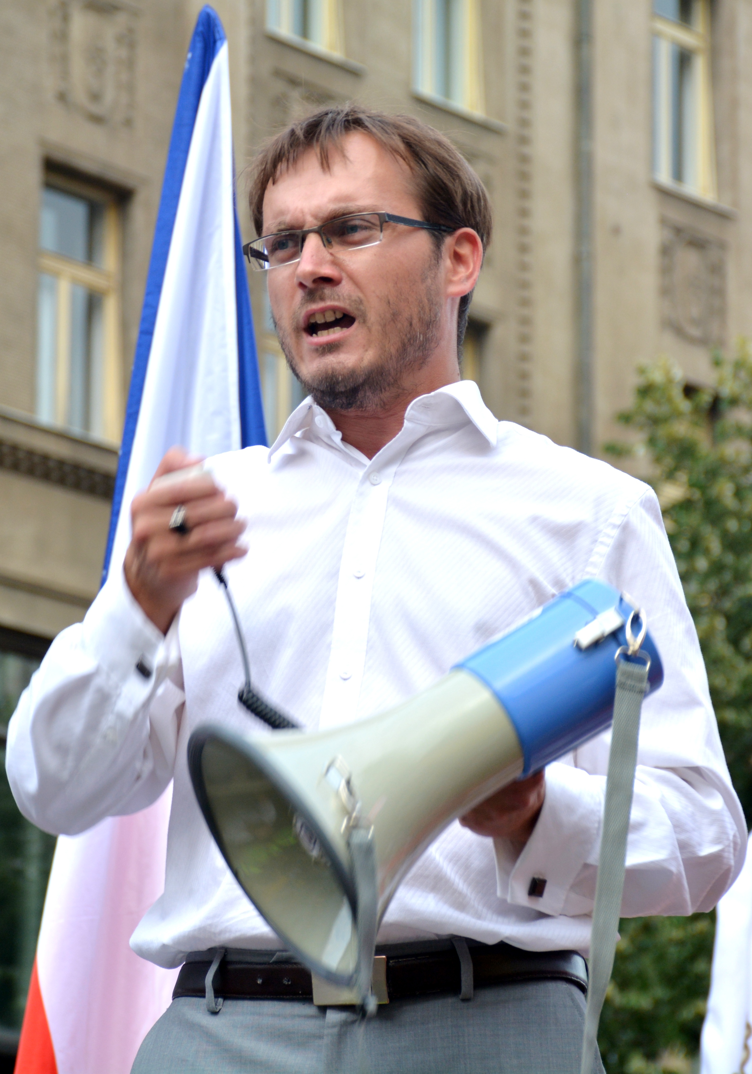 Adam B. Bartoš, Chairman of the National Democracy Party